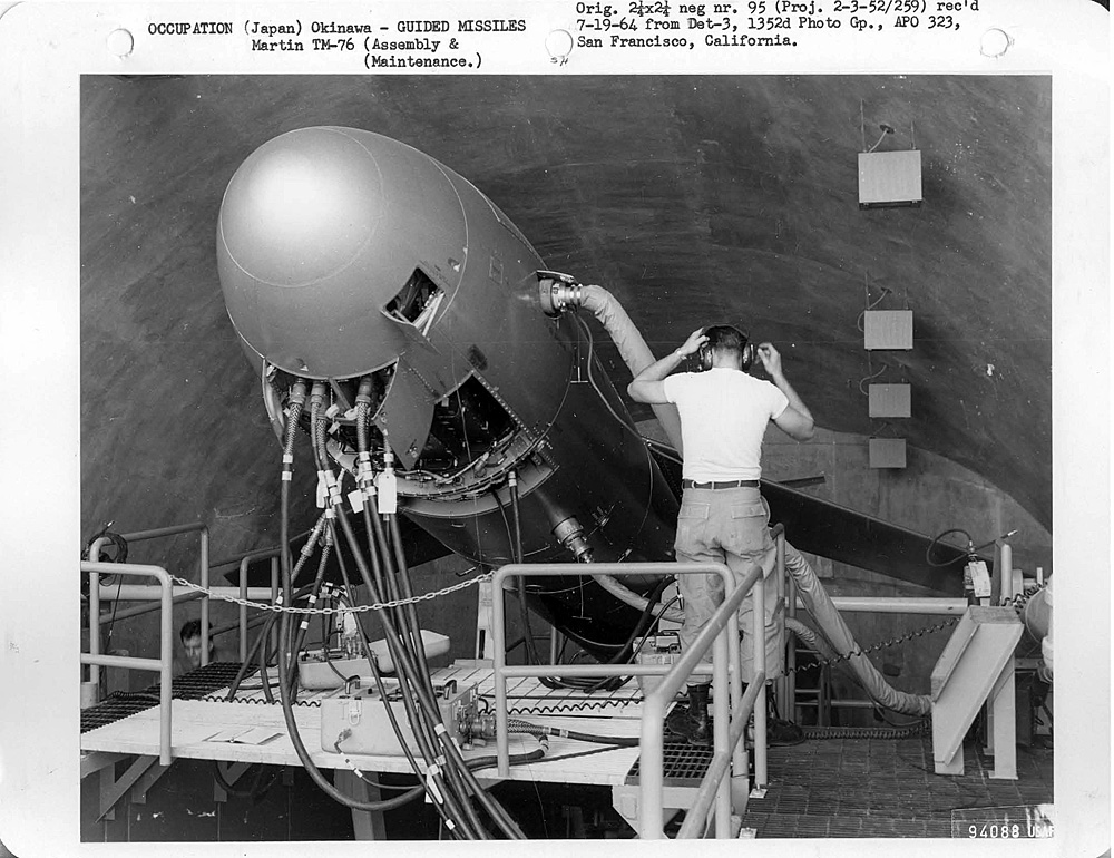 Technicians at work on a Mace B cruise missile in a hard-site launcher on Okinawa, April 1962. Carrying a one-megaton W28 nuclear warhead, the rocket-boosted, jet-propelled Mace missile could be fired at six minutes' notice. House in underground concrete and steel “coffins,” the Mace Bs (TM-76B) had an inertial guidance system and a range which exceeded 1,300 miles. Two Mace B squadrons were located in Okinawa during 1961-1970. In recent months, a controversy has emerged over whether, during the Cuban Missile Crisis, the Okinawa-based 873d Tactical Missile squadron received orders to launch missiles against Sino-Soviet targets.[iii] (NARA, Still Pictures Unit, Record Group 342B, box 1470).